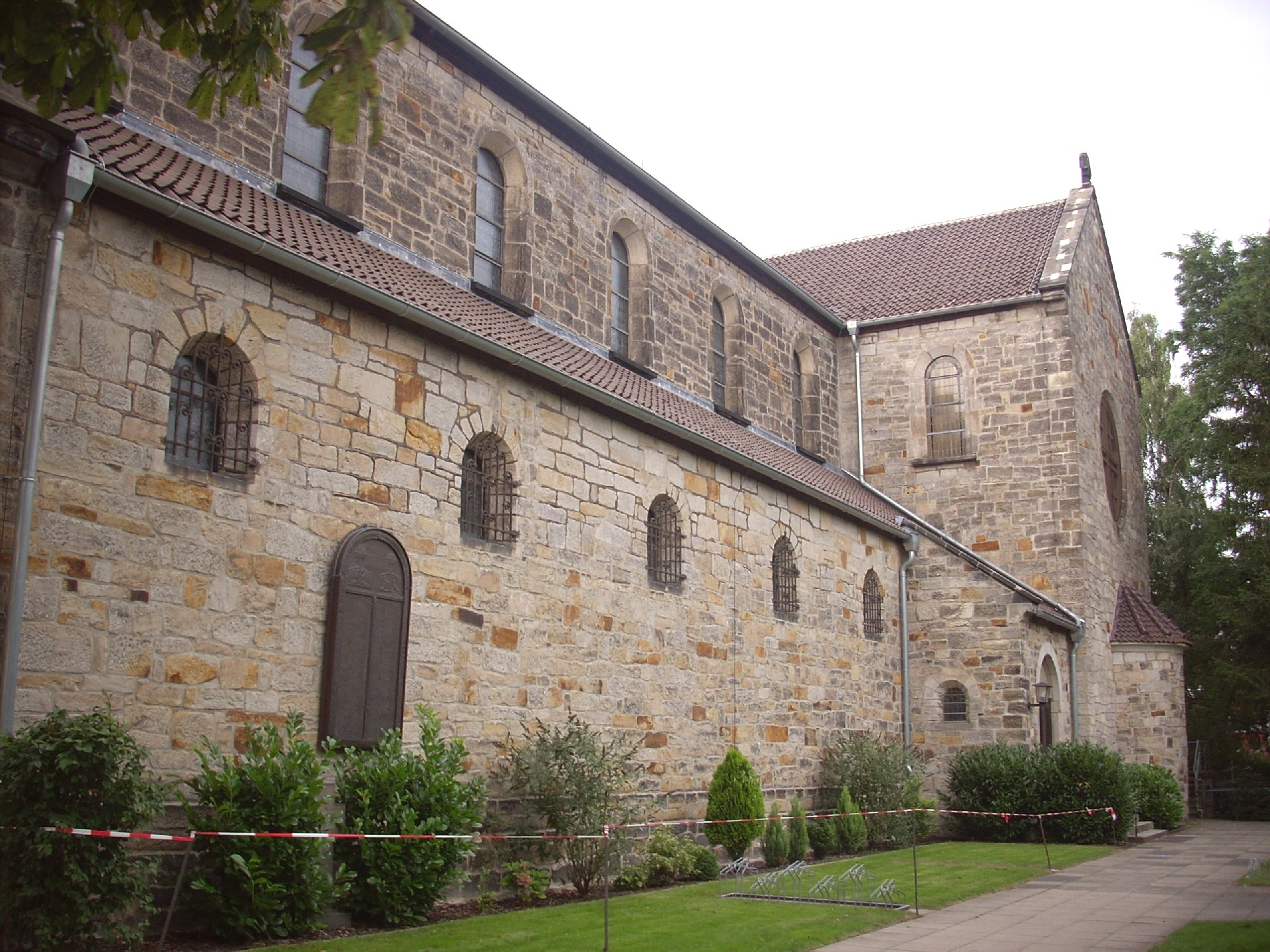 Hannover, St. Bernward Catholic Church